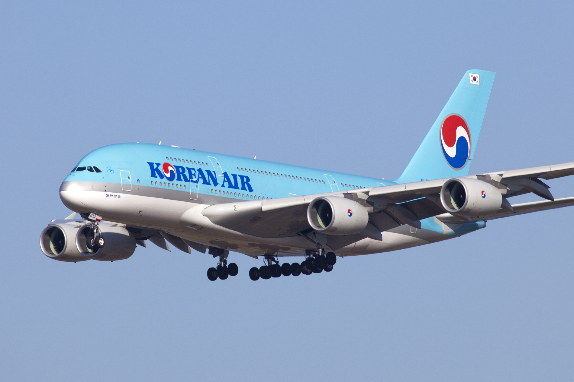 Seoul-Incheon